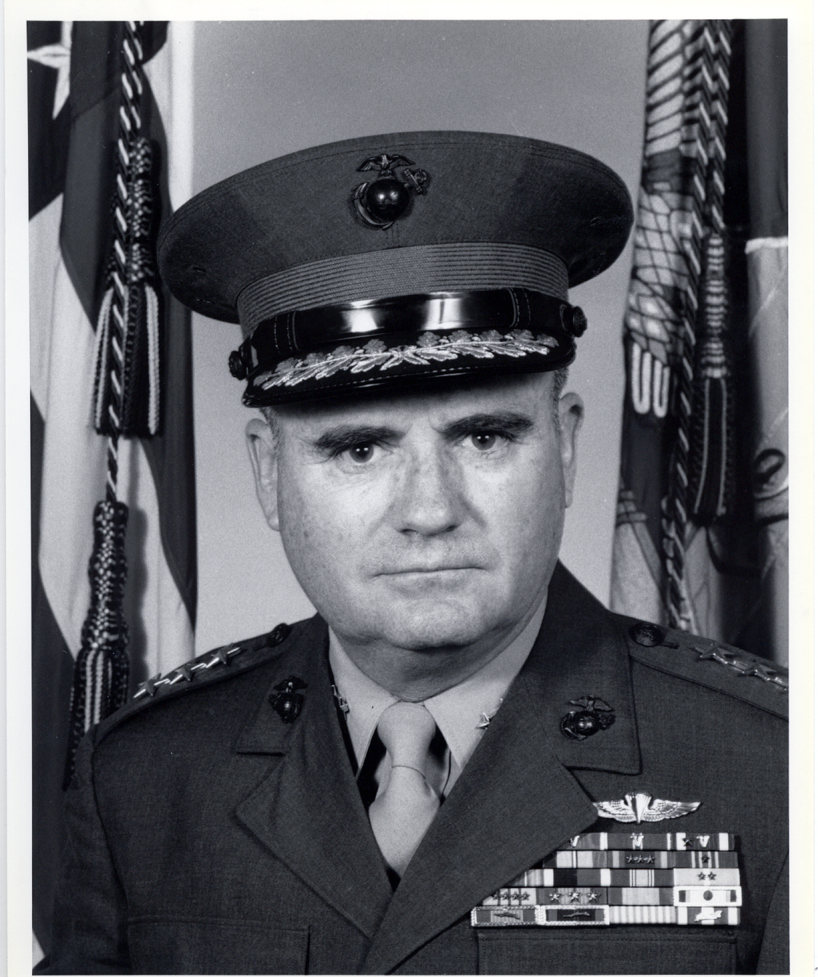 Lieutenant General Bernard E. Trainor, USMC, Official Marine Corps photo